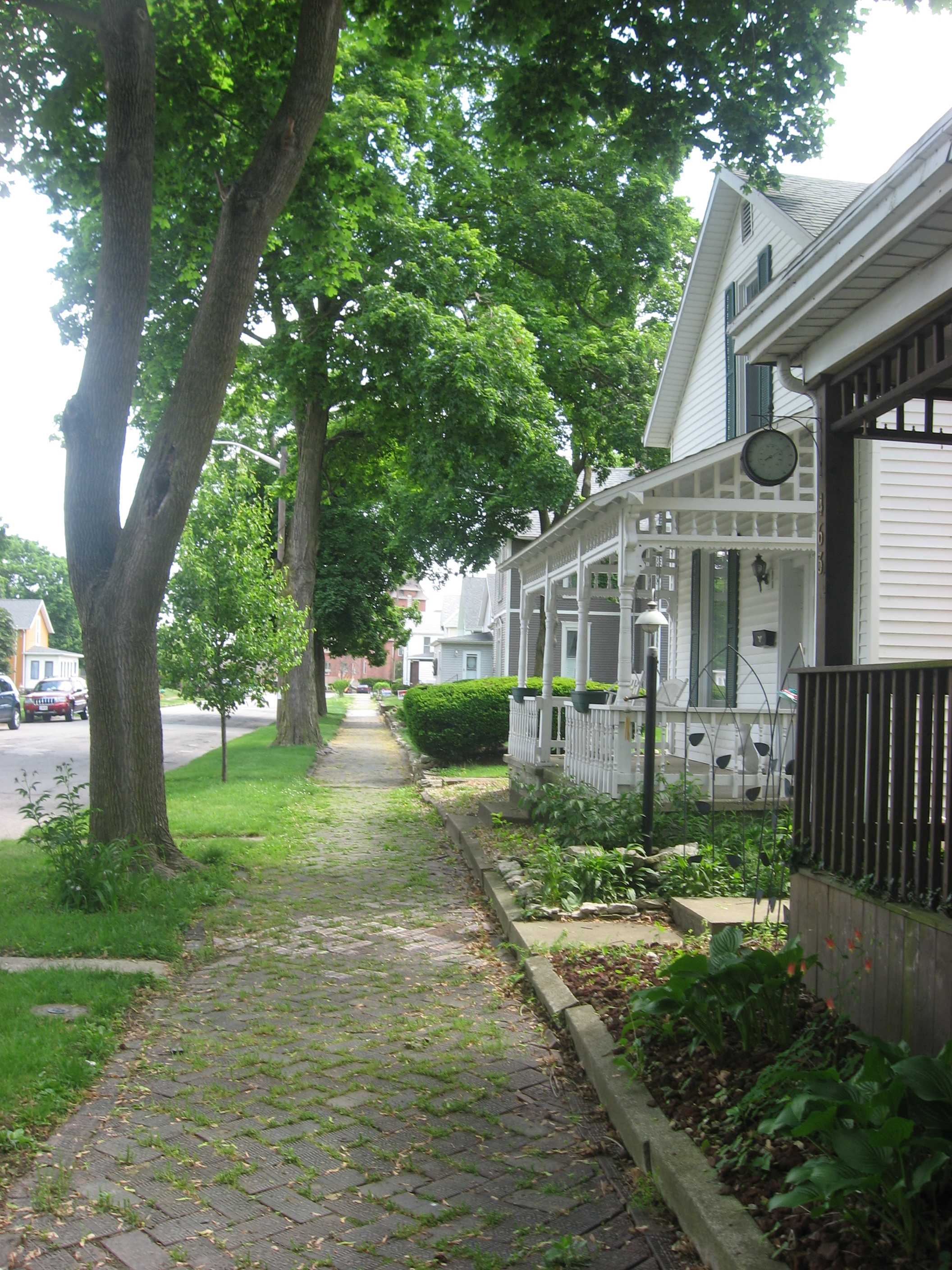 Houses on the southern side of the 400 block of W. William Street in Huntington, Indiana, United States. This block of William (both the houses and the brick sidewalk) is part of the Drover Town Historic District, a historic district that is listed on the National Register of Historic Places.